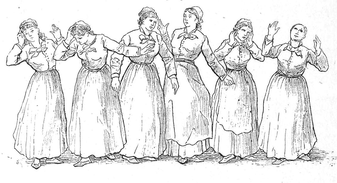 A set of drawings of a woman with 'hysteria' experiencing catalepsy from an 1893 book